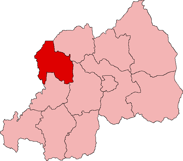 Map of Rwanda showing Gisenyi Province; created with the GIMP. Made by User:Acntx.